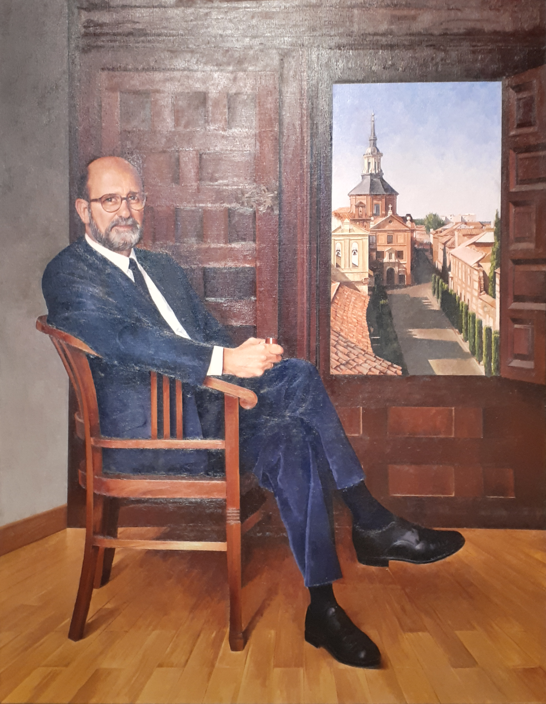 Portrait of Arsenio Lope Huerta, painted by Amparo Vargas in 2001.